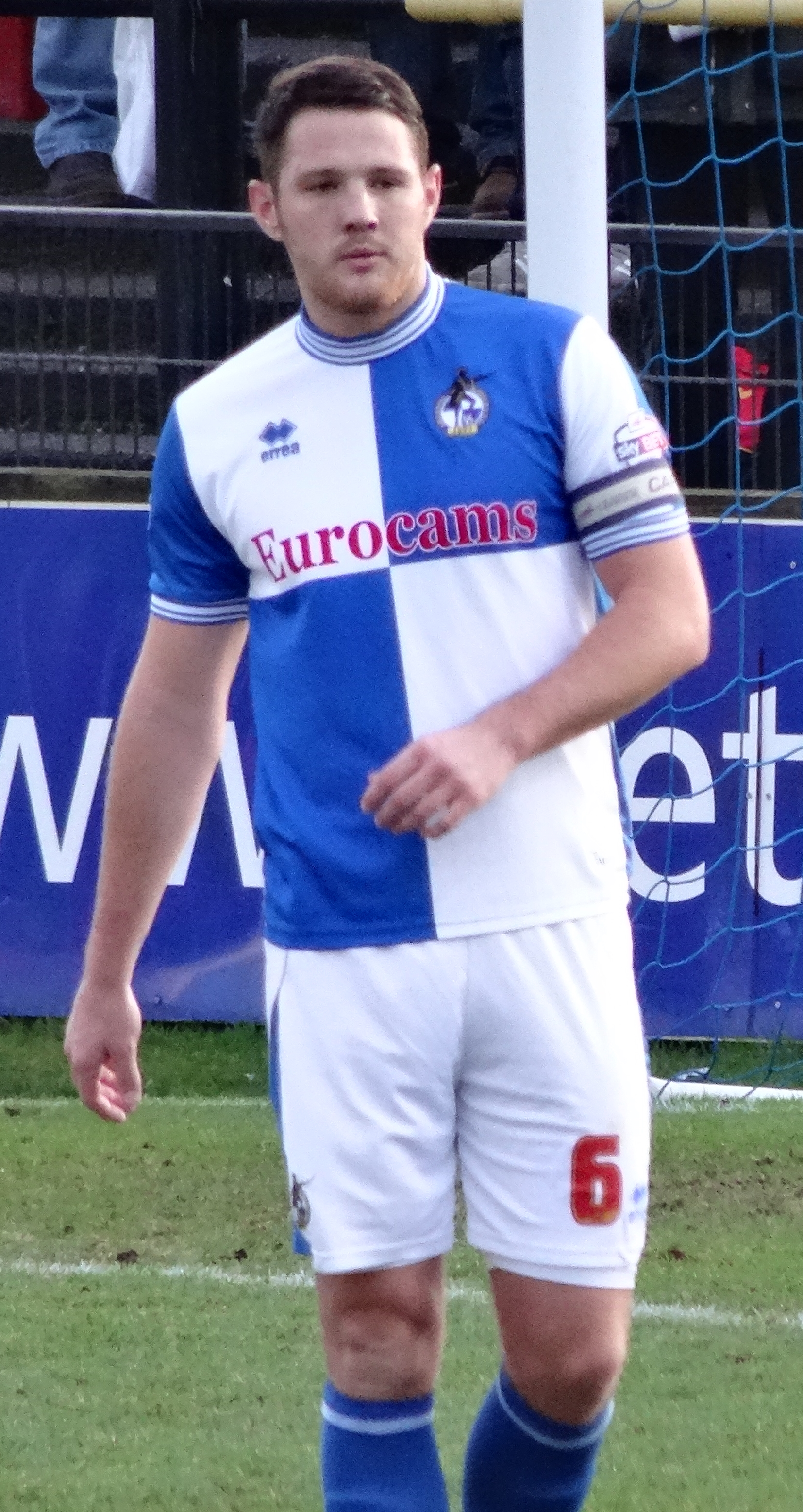 Tom Parkes playing for Bristol Rovers against York City at Bootham Crescent, York on 18 January 2014